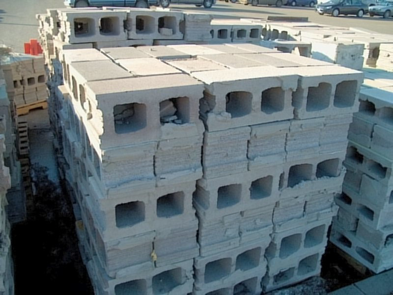 8 " x 8" x 16" stretcher concrete blocks